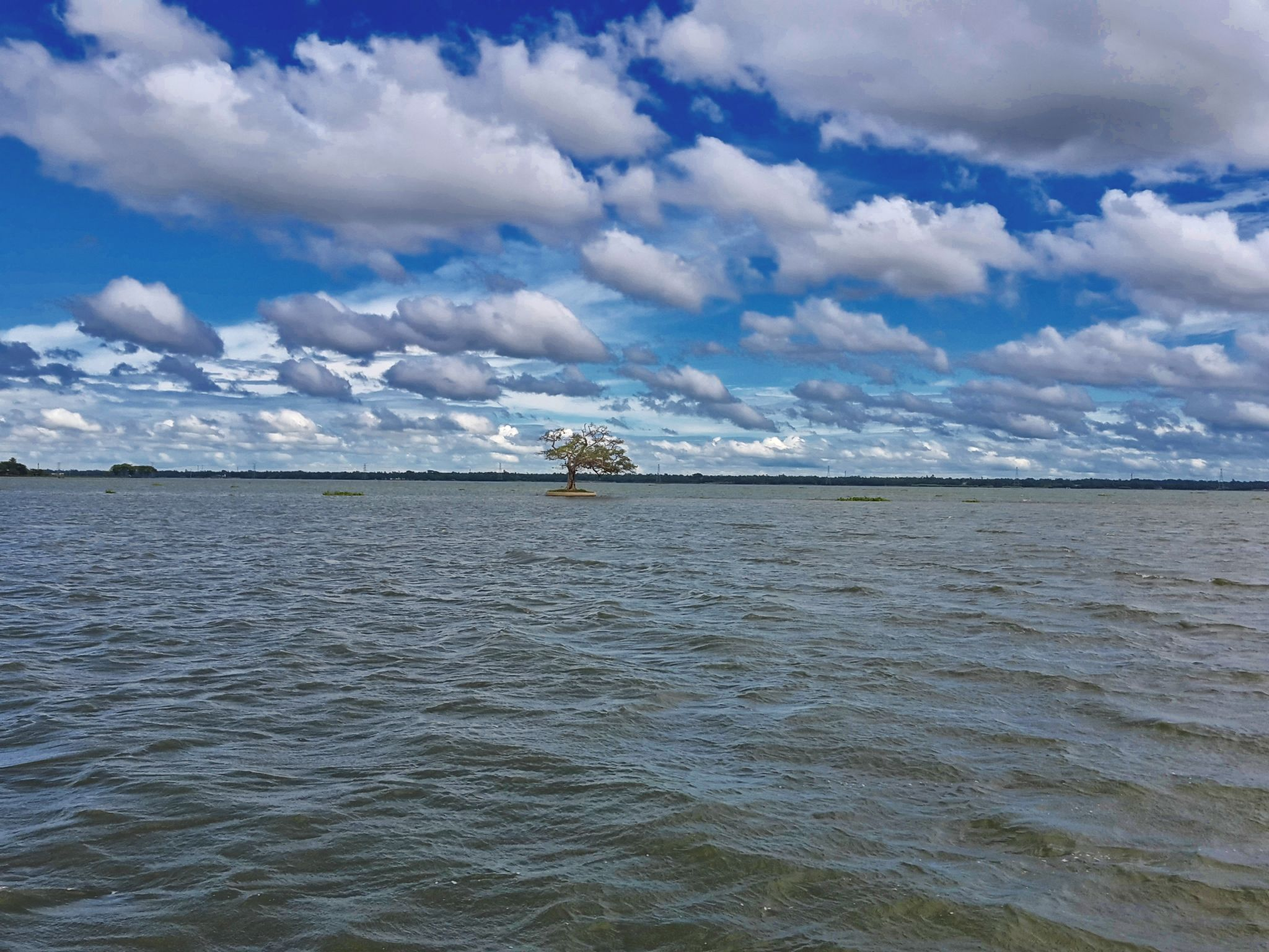 Haor wet lands in rainy season in bangladesh